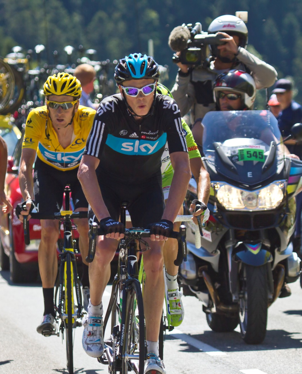 047 wiggins - froome